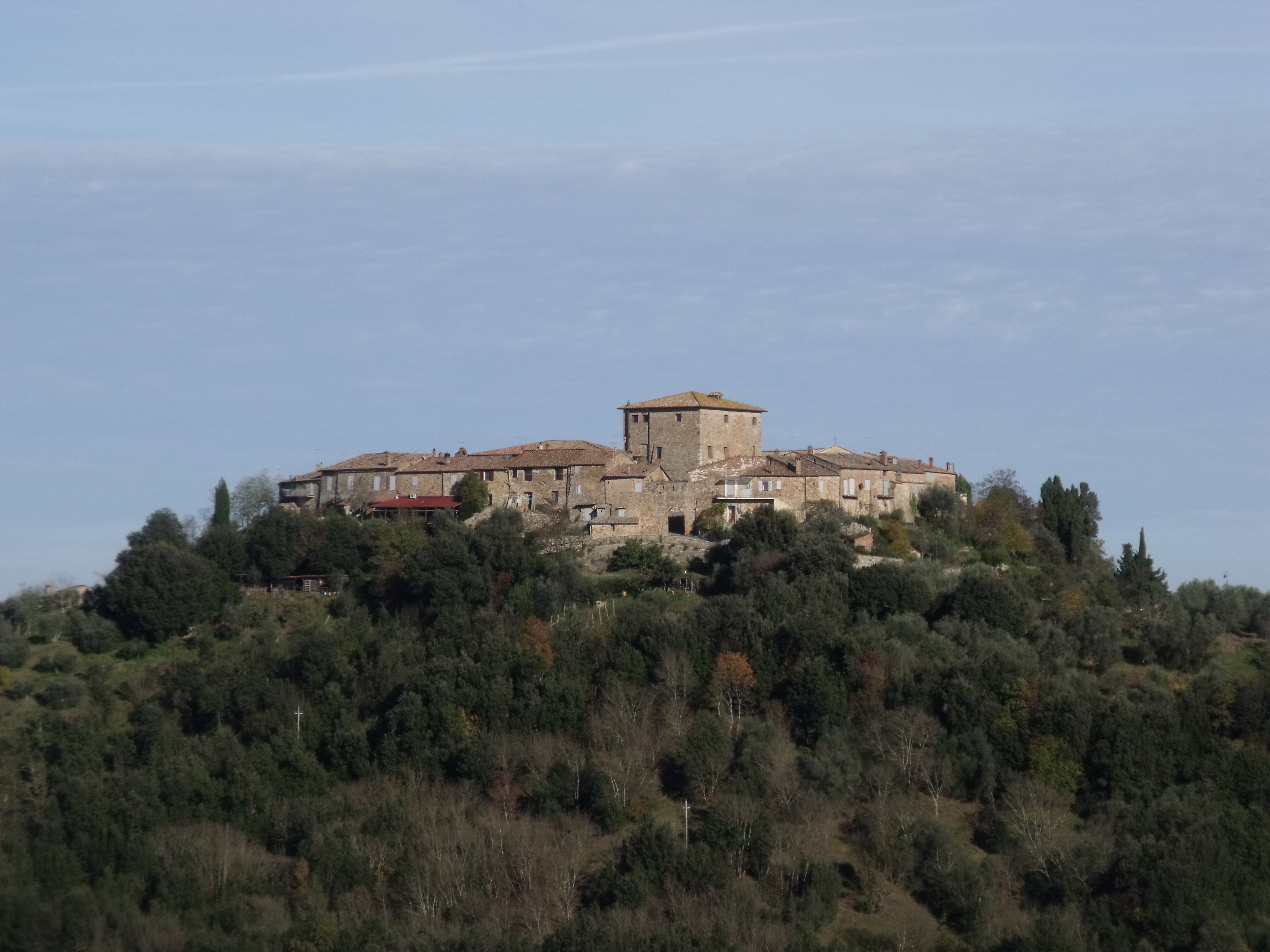 Panorama of Murlo (Borgo/Castello) in Murlo, Province of Siena, Tuscany, Italy